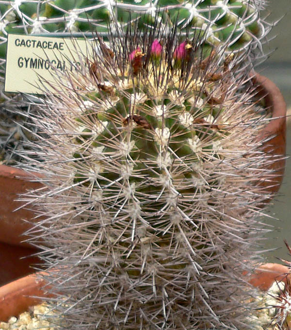 Photo of Neoporteria wagenknechtii at the University of California Botanical Garden